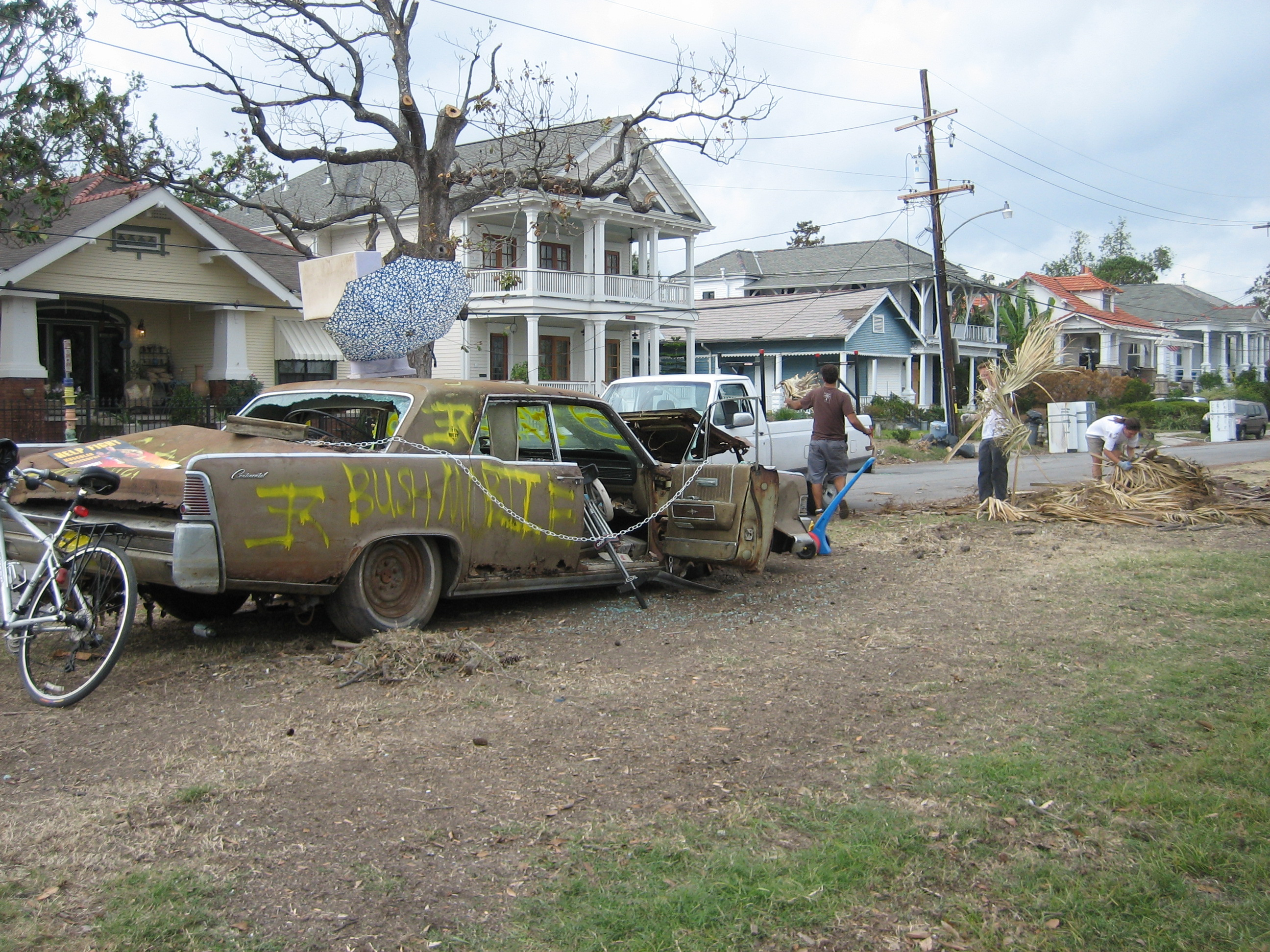 New Orleans after Hurricane Katrina: Neighborhood cleanup work in the neighborhood along the banks of Bayou St. John. Trashed Lincoln Continental and other debris has become a termporary junk art piece labeled "Bushmobile", a sarcastic reference to President George W. Bush. Photo by Infrogmation, November 2005